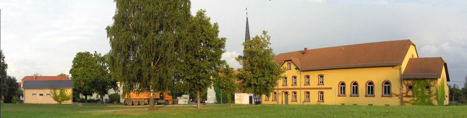 Historic country inn Mehna